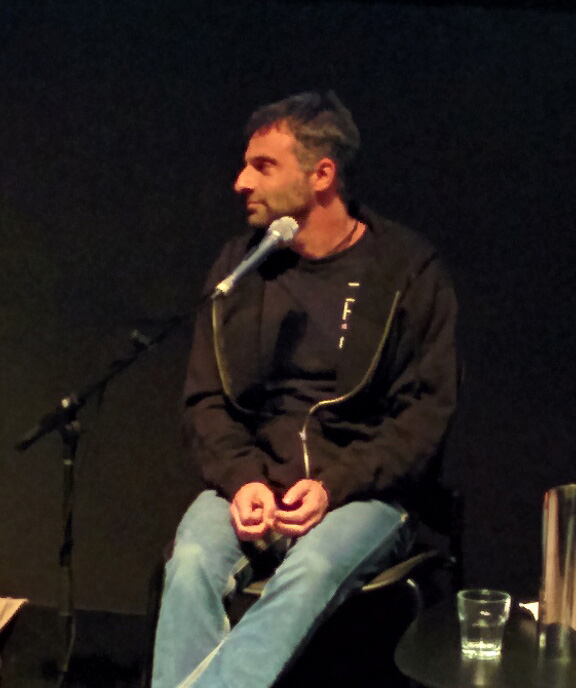 Raphaël Colantonio at a Q&A event for the video game Prey, at ACMI in Melbourne, Australia on May 3rd 2017.